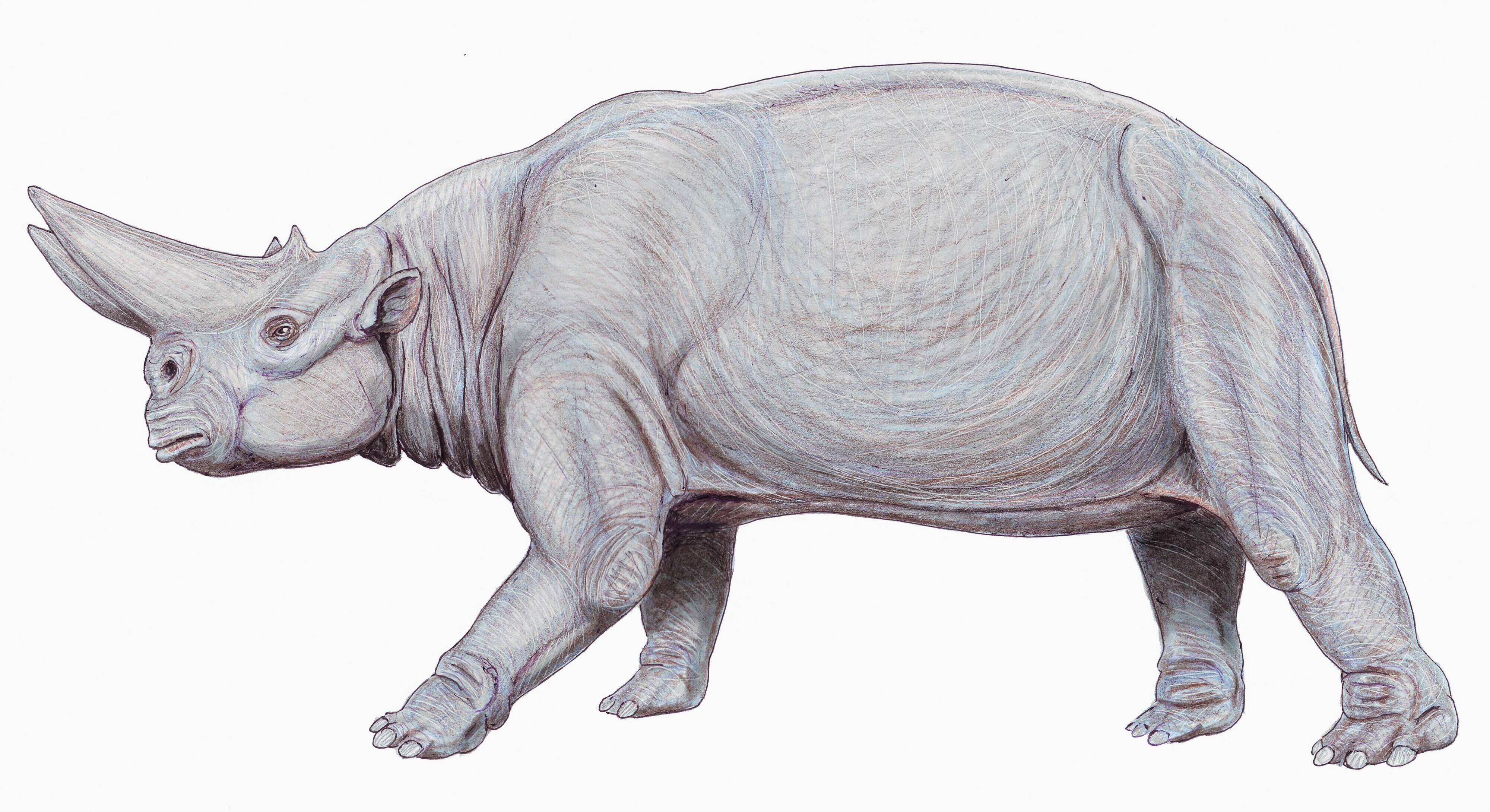 Arsinoitherium zitteli from Late Eocene of Egypt